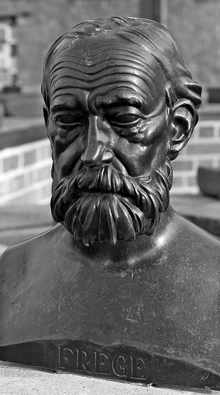 Bronze bust sculpture of the German mathematician, logician and philosopher Gottlob Frege (1848-1925) by Karl_Heinz Appelt (1940-2013). Location: Wismar, Marienkirche. Other casts also at Philosophisches Seminar, Universities Jena (since 1998) and Bonn (sinde 2000)